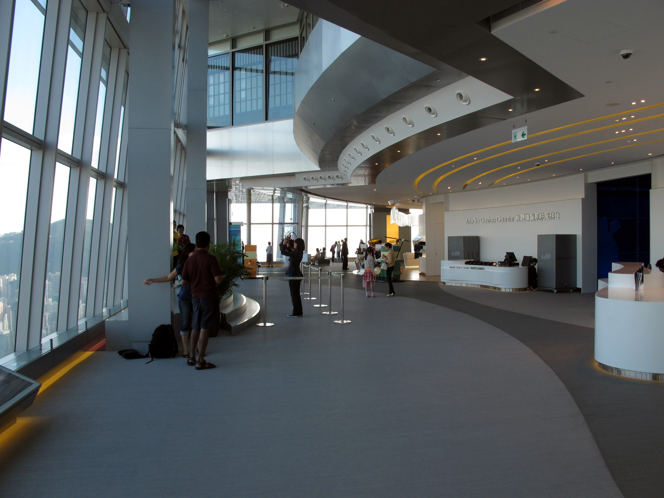 International Commerce Centre Sky 100